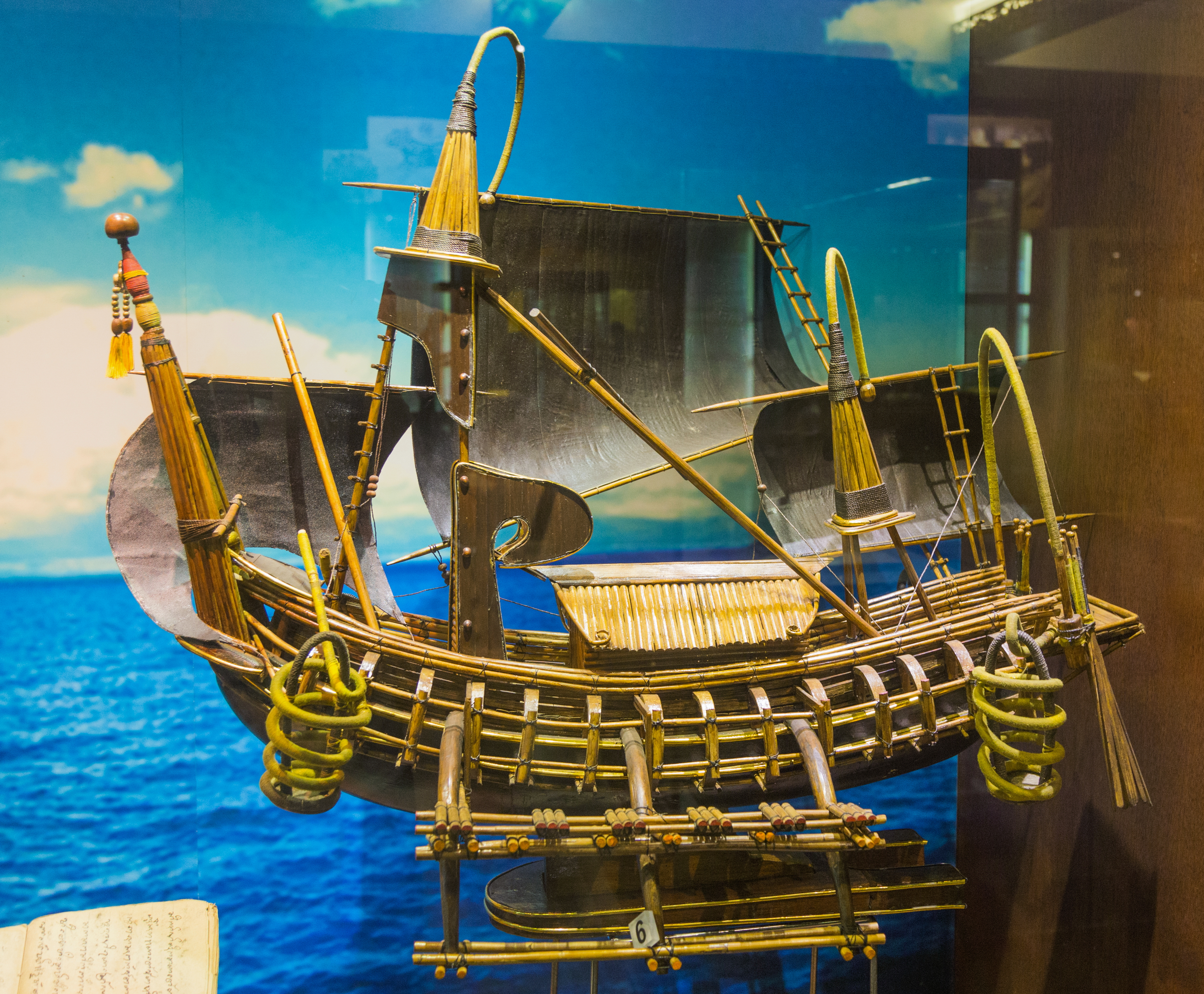 Model of a ship from Majapahit Empire. National Museum (Muzium Negara). Kuala Lumpur, Malaysia.